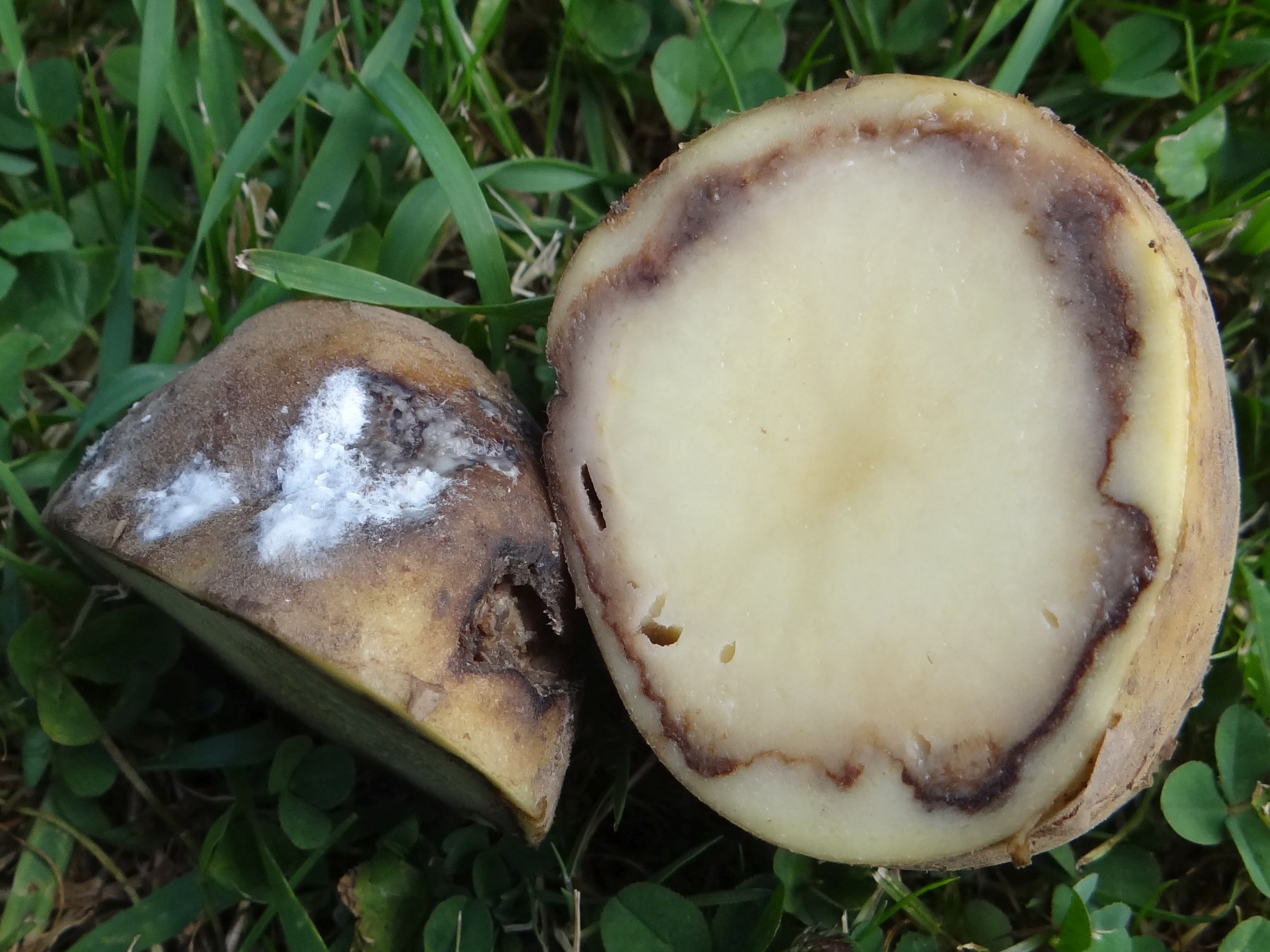 Phytophthora infestans on Solanum tuberosum